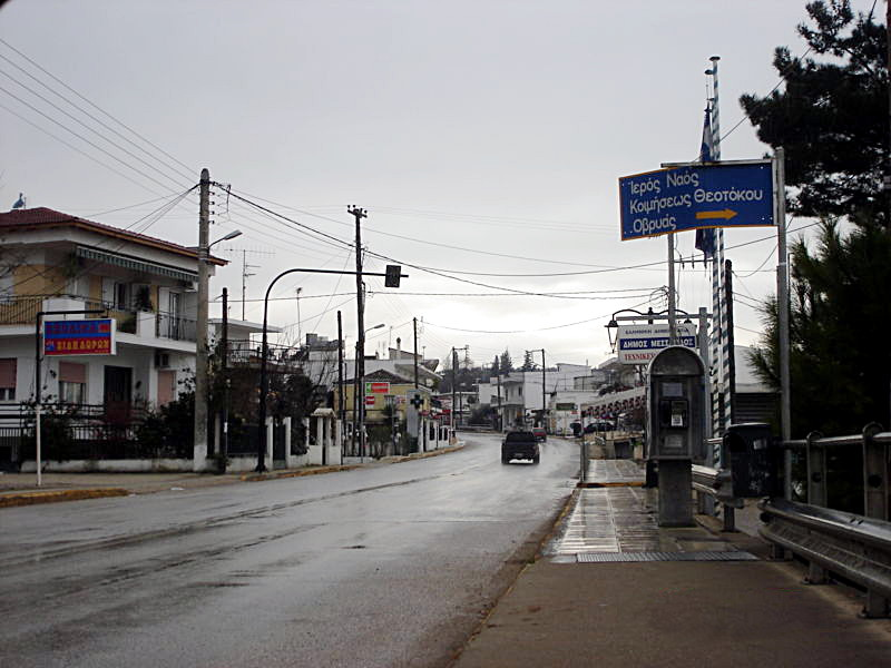 Dromos ovrya Greece